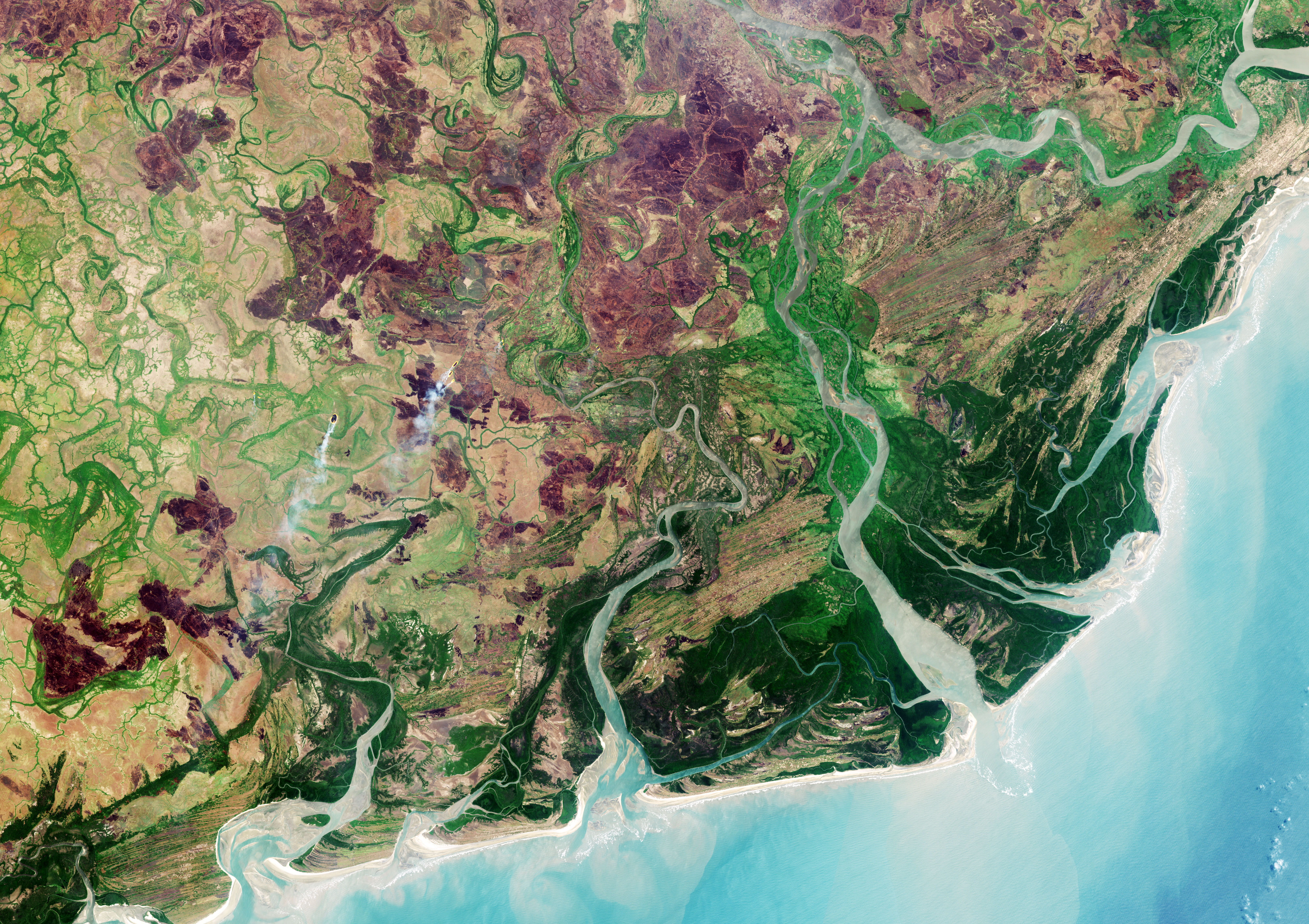 Covering 3000 sq km, the Zambezi Delta in Mozambique is one of the most diverse and productive river delta systems in the world. This unique wetland, which is protected under the Ramsar Convention on Wetlands, features a broad alluvial plain with vast mosaics of grassland, woods, deep swamps and extensive mangroves. Recognised as a global biodiversity conservation hotspot, this remarkable delta is home to a myriad of wildlife, from big mammals such as buffaloes, lions and elephants to water birds such as fish eagles and flamingos, to marine species such as dolphins and freshwater fish. As well as this rich biodiversity, this extraordinary delta not only provides a source of food for Mozambique, but also protects the coast from flooding. While the Zambezi River Delta is an example of a healthy ecosystem, biological diversity is declining around the world. It is estimated that between 100 and 150 species disappear every day. The International Day for Biological Diversity is held every 22 May to increase understanding and awareness of biodiversity issues such as this. Ratified by 196 nations, the Convention on Biological Diversity is the international legal instrument for the conservation of biological diversity and the sustainable use of its components. Satellites observing Earth have an important role to play as images can be used to assess the health of important ecosystems and show how they may be changing. This image was captured by the Copernicus Sentinel-2A satellite on 28 September 2016.